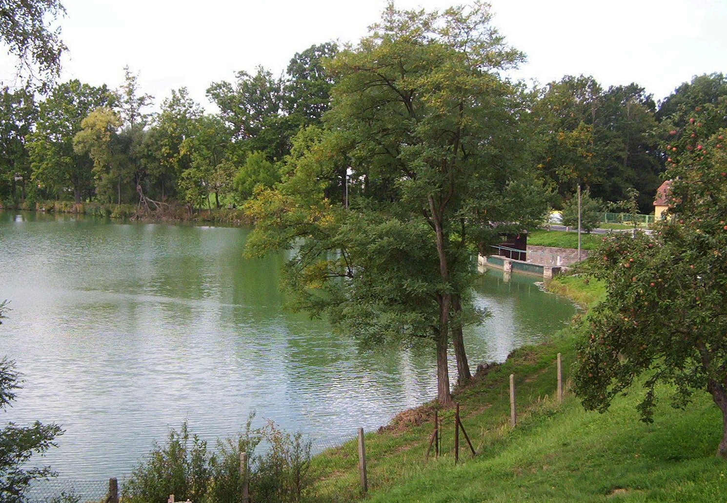 Bošilec Pond, Czech Republic